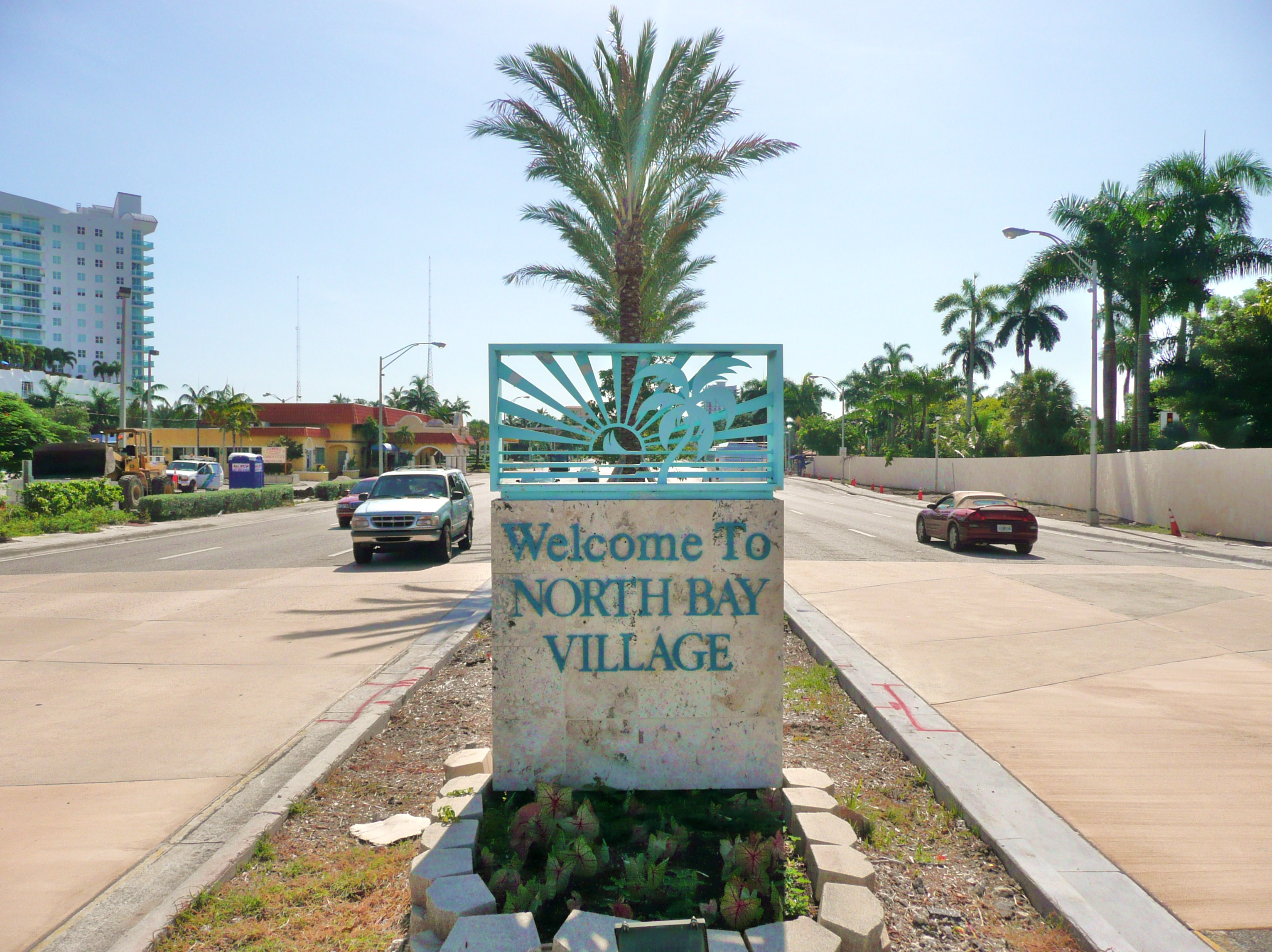 Digital photo taken by Marc Averette. Entrance to North Bay Village, Florida, United States, a suburb of Miami.